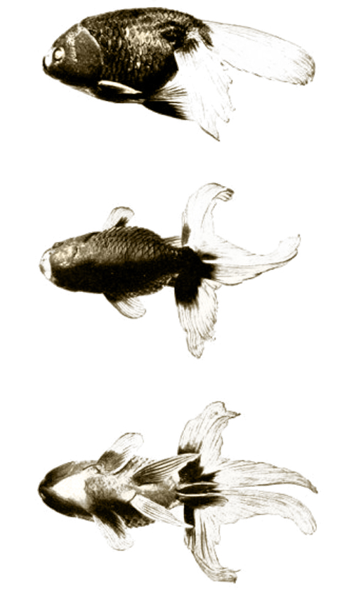 Animal - Fish - Varieties of Goldfish - Shukin